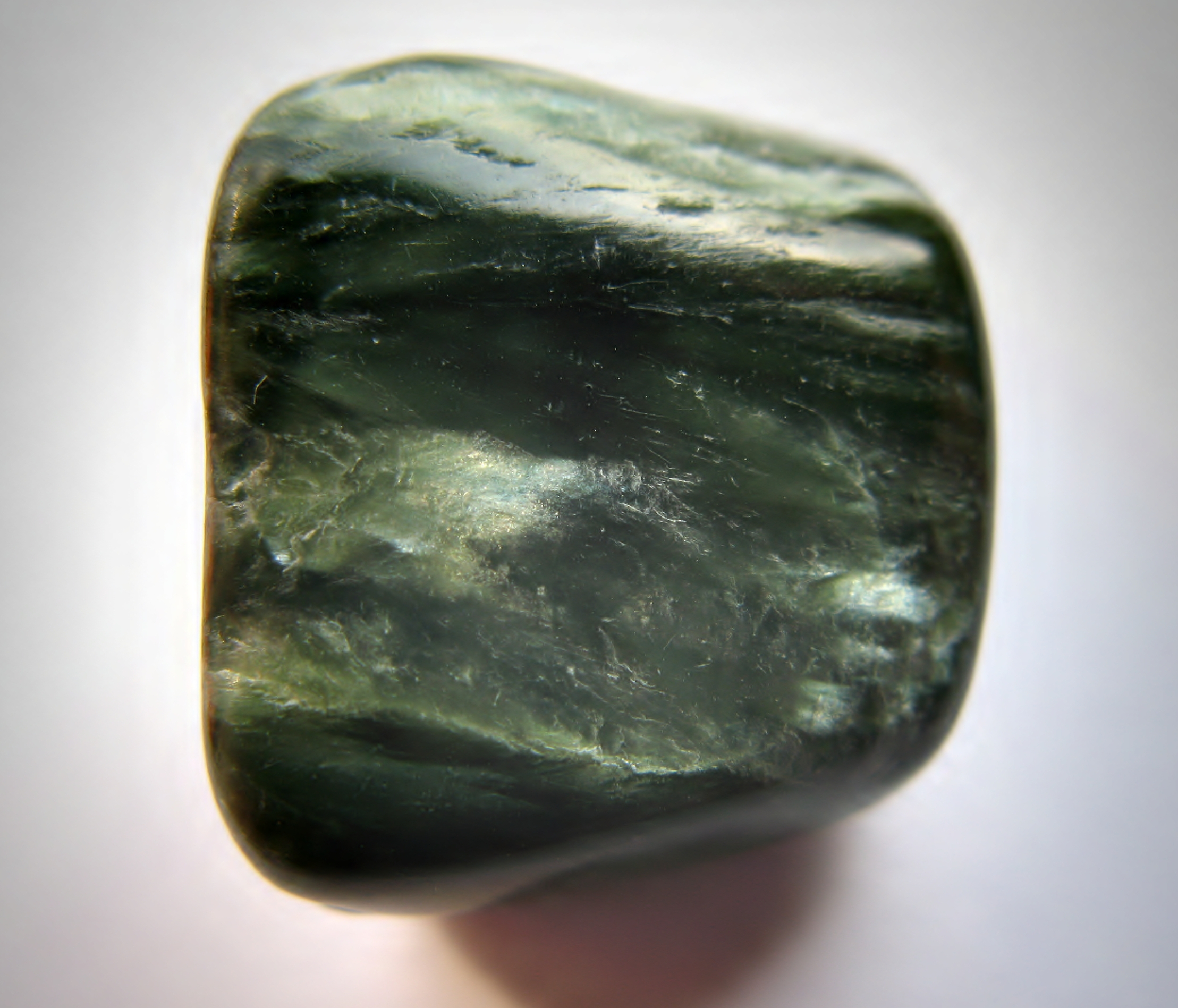 Clinochlore (synonym: Seraphinite)